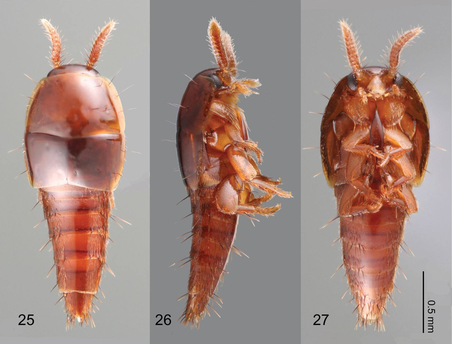 Habitus of Coptotermocola clavicornis. 25 – dorsal view; 26 – lateral view; 27 – ventral view.